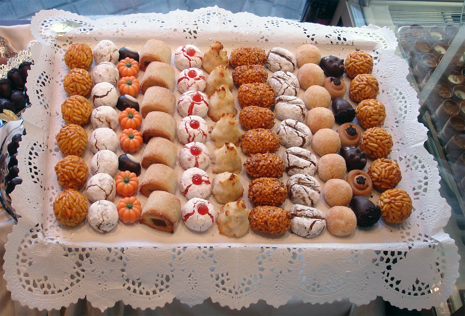 Panellets are the traditional dessert of the All Saints holiday, in Catalonia – Spain.